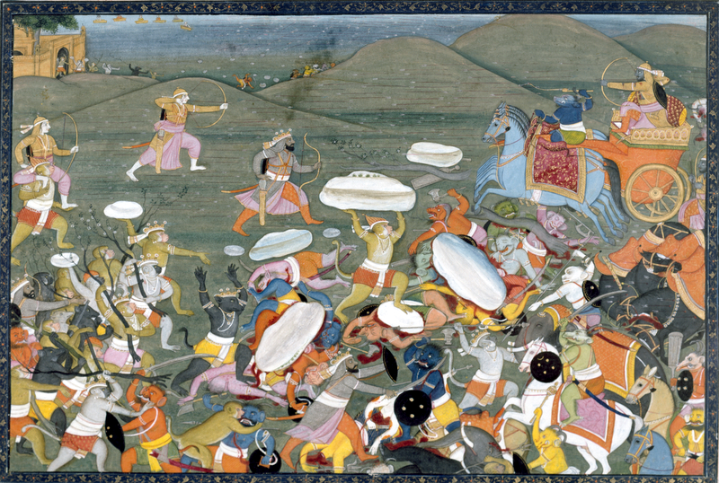 "In the upper right part of the painting, Indrajit, a member of the demon army, is shown shooting an arrow at Rama's brother Lakshmana, who fires back. Rama is seen at far left, carried on the shoulders of his monkey ally Hanuman. At the very center of the painting, Hanuman is depicted again, tossing an enormous white boulder at the demons."